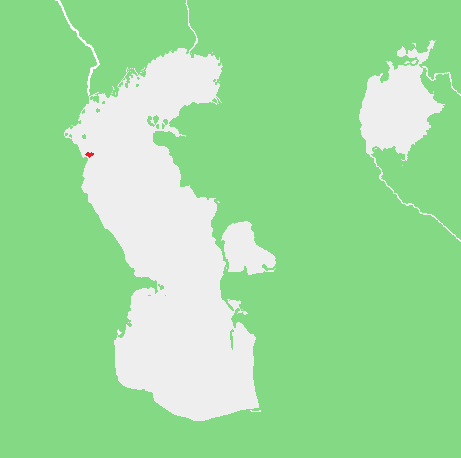 location map